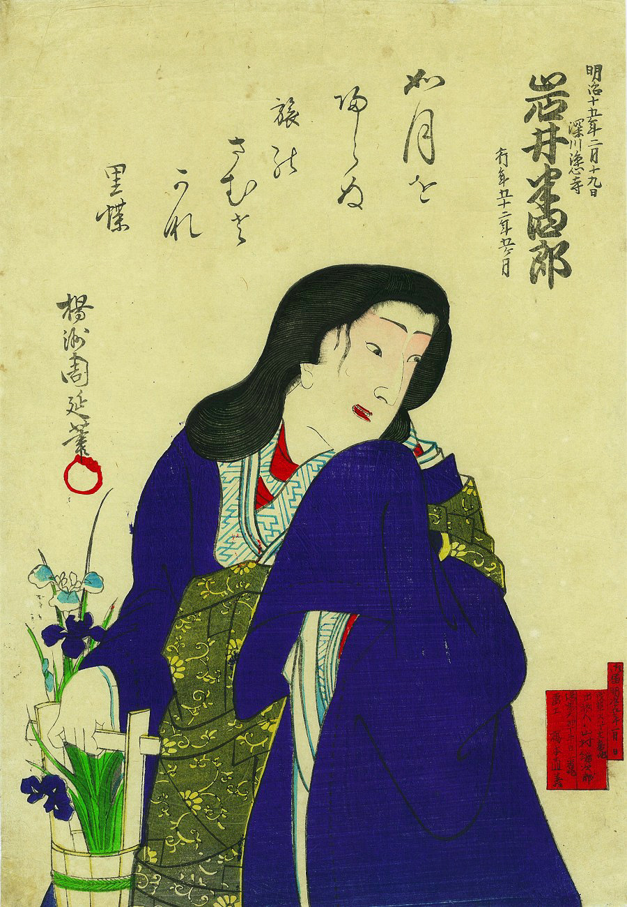 A commemorative/memorial portrait of Iwai Hanshiro VIII, one of the greatest female role actors (onnagata 女形) of the Edo period.